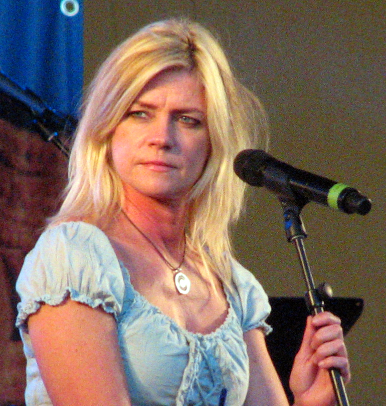 Karin Wistrand at a concert with Jeremias Session Band in Örebro, Sweden.